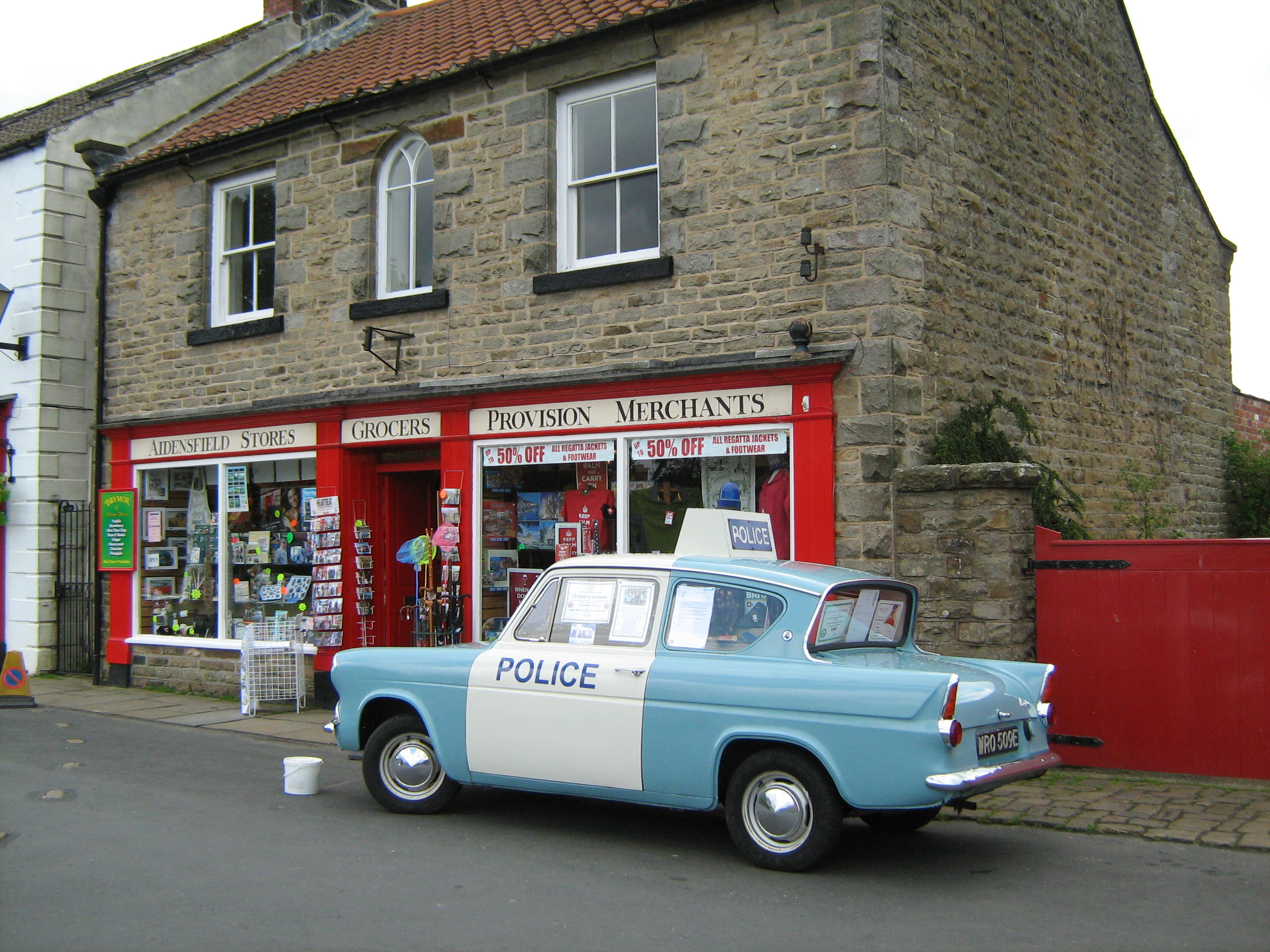 Goathland Grocery Store (aka Aidensfield Stores in "Heartbeat") with the Police Car in front. July 2011